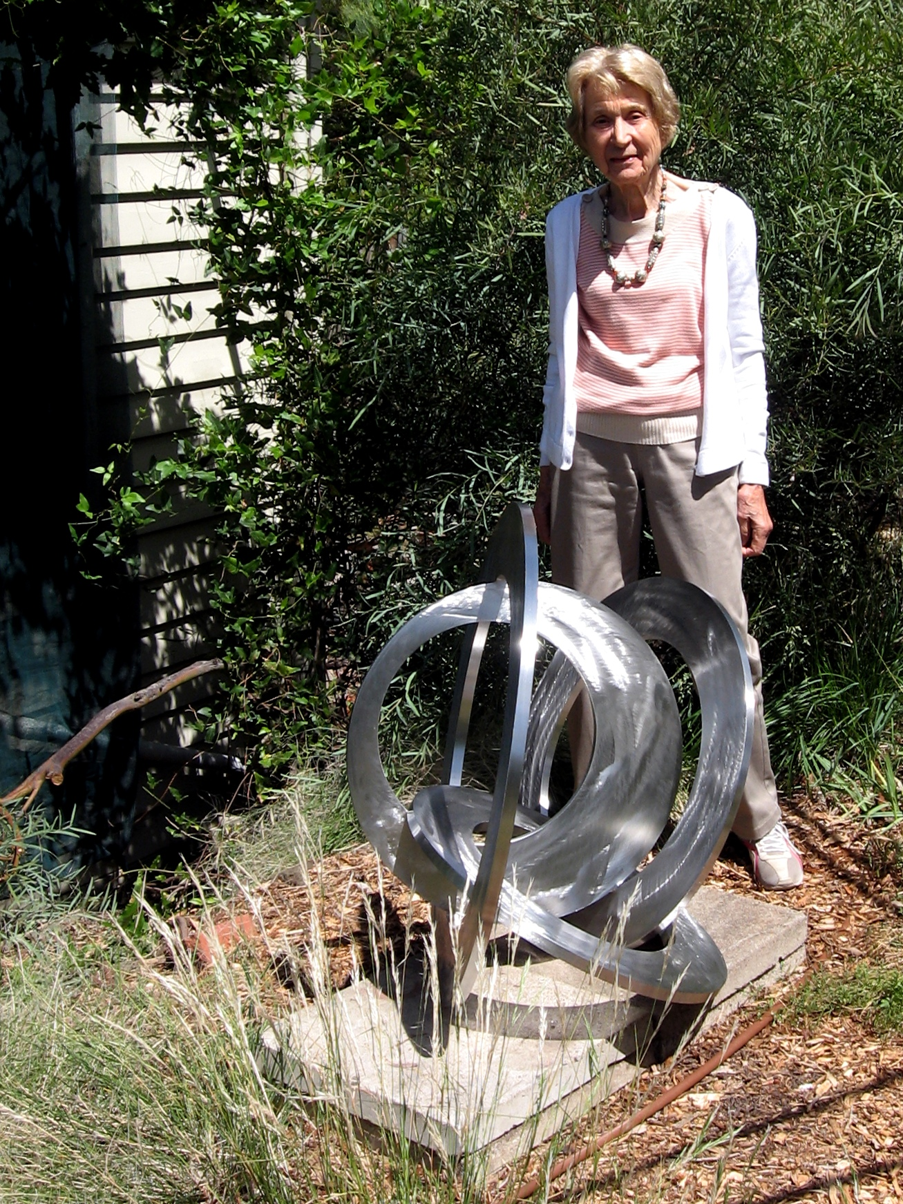 Inge King and her sculpture Interlocked II.